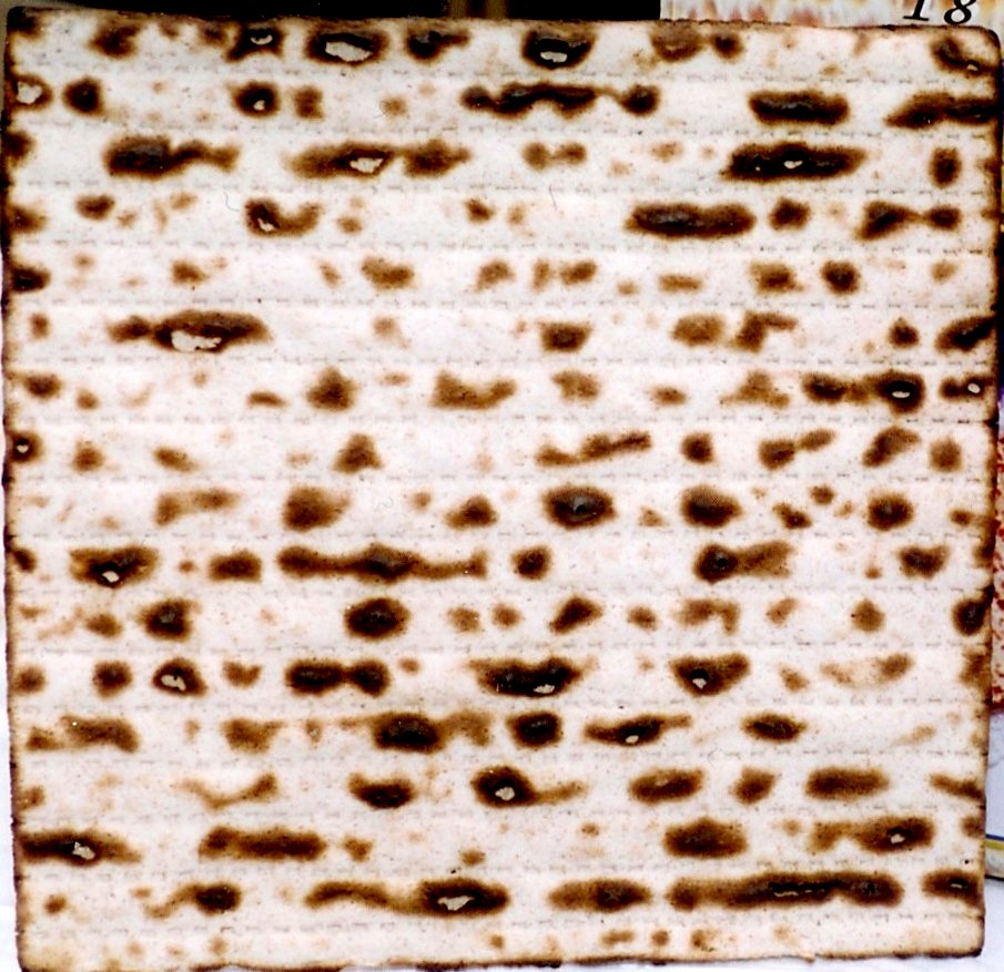 A depiction of the Matza.